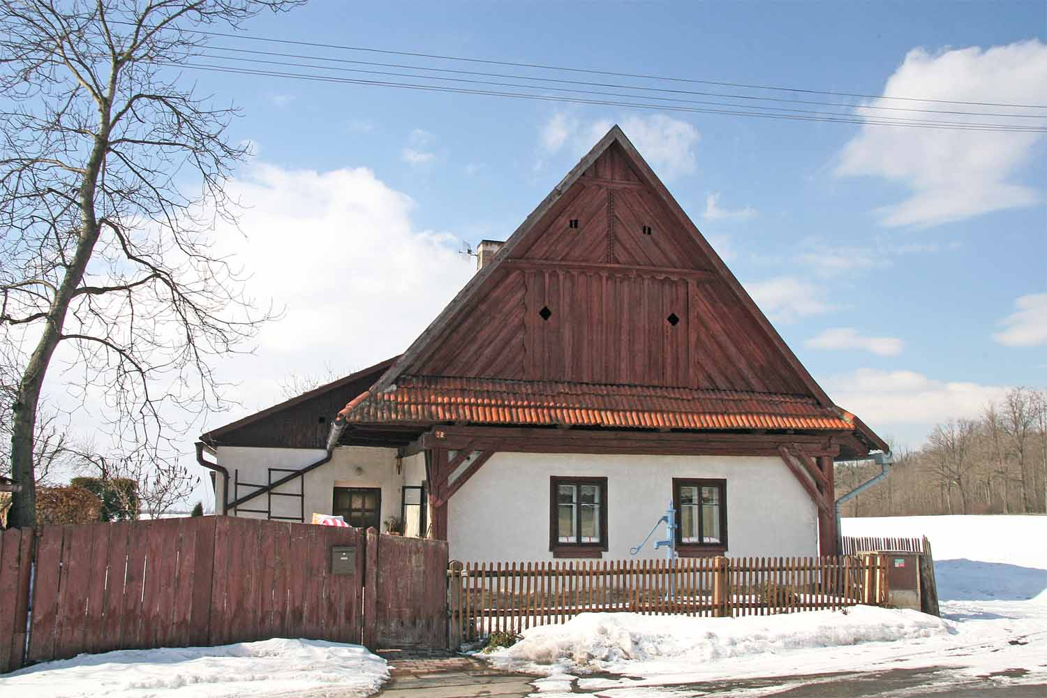 Listed house with decorated wooden gable in Sruby near Vysoké Mýto, Ústí nad Orlicí District, Czech Republic.